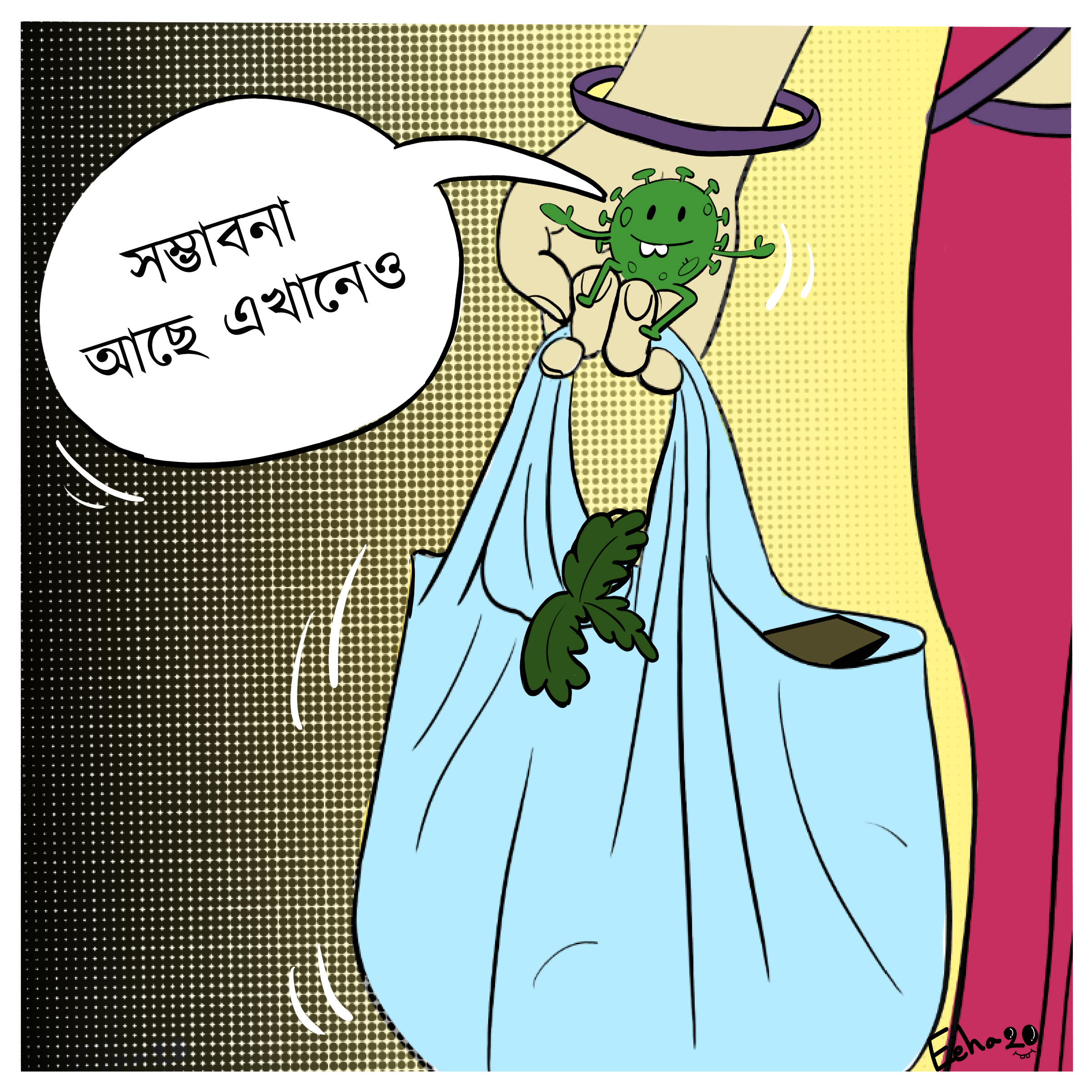 Artist, Visualization & dialogue : Anika Nawar Eeha Concept: Abdullah Al Mamun